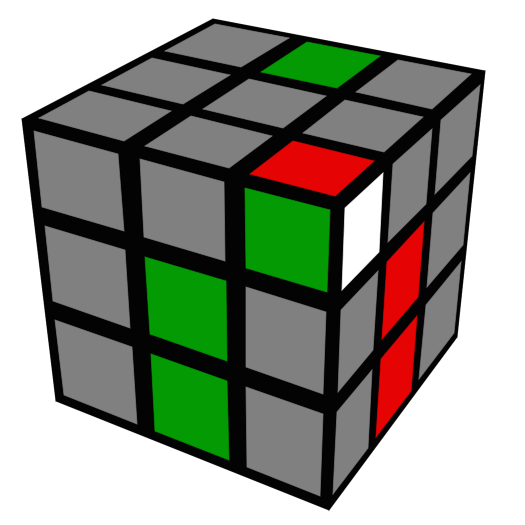 CFOP F2L type2